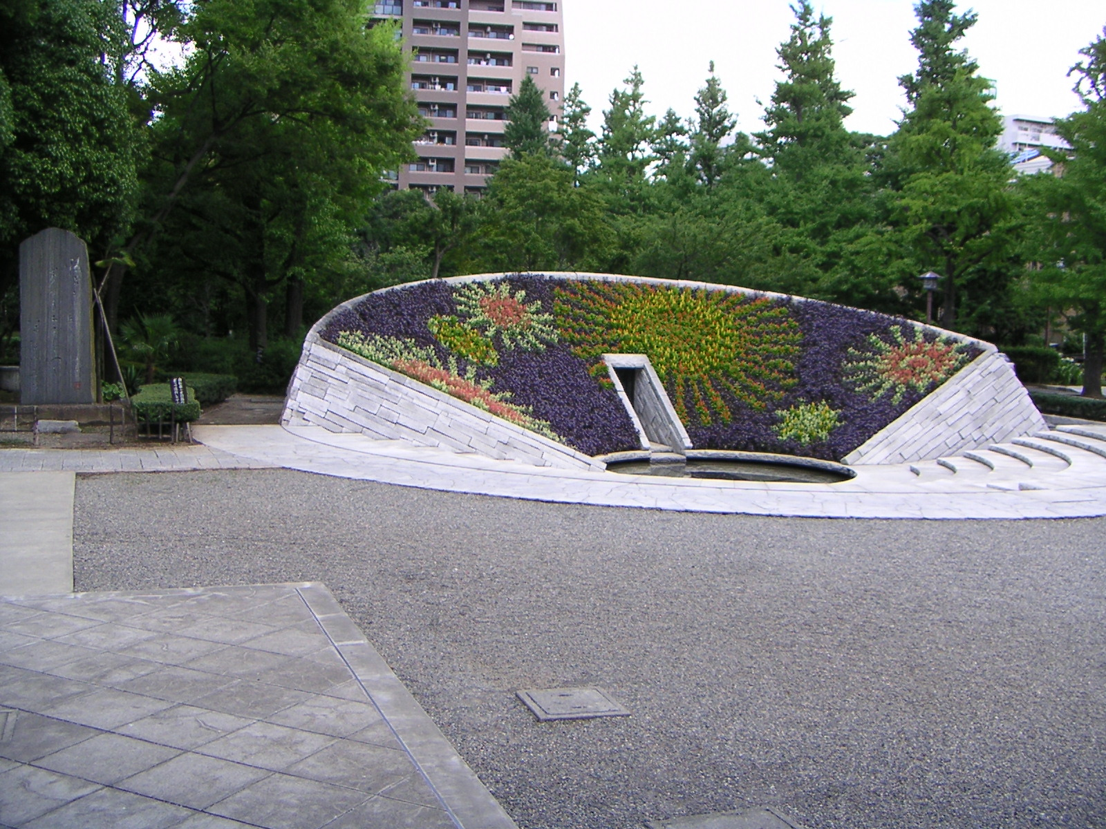 Tokyo Kusyu Giseisya tsuitoh Heiwa Kinen Hi at Yokoamicho Park in Sumida,Tokyo